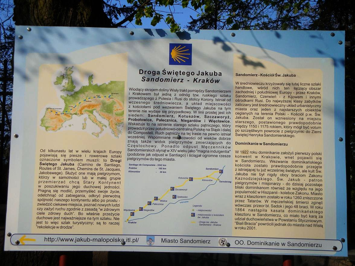 Dominican Church and Convent of St. James in Sandomierz The Lesser Polish Way